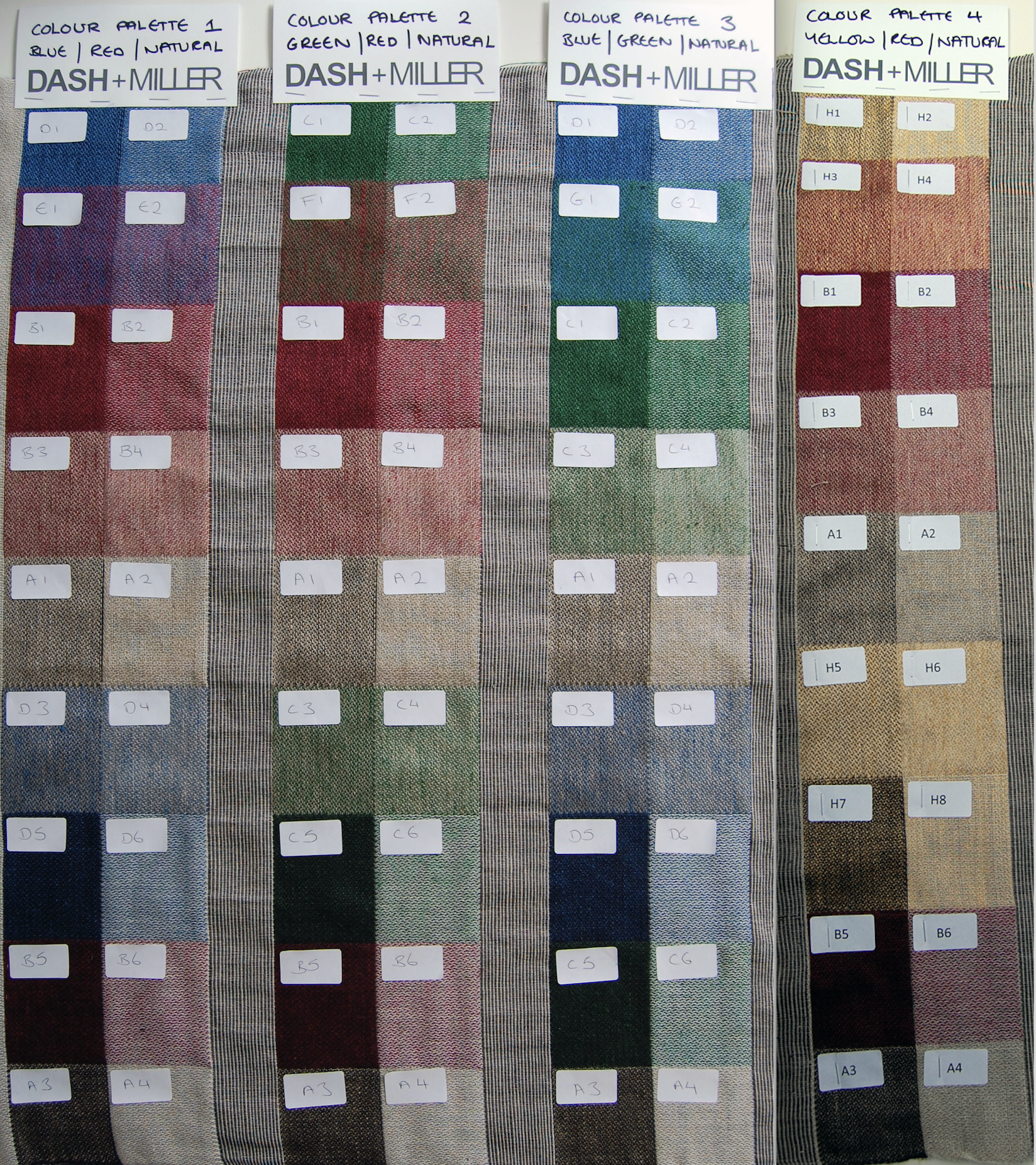 Game of Thrones tapestry color palette